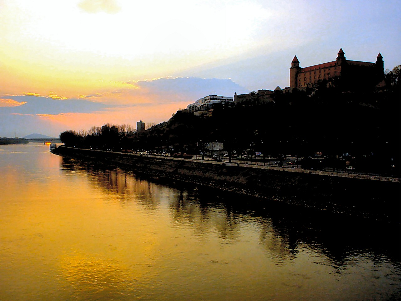 Slovakia; Bratislava; View from New Bridge